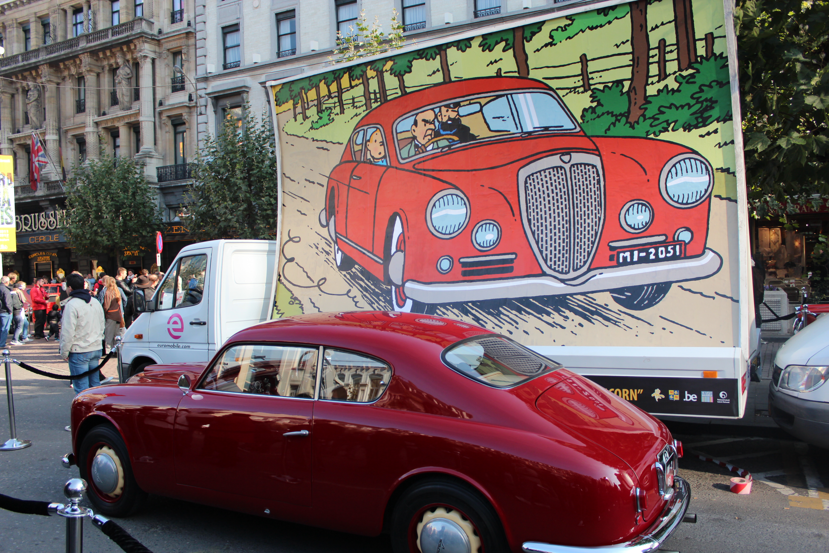 Car depicted in the Tintin comics series, during the events of the worls premiere of The adventure Tinitin - The Secret of the Unicorn in Brussels, on 2011-10-22